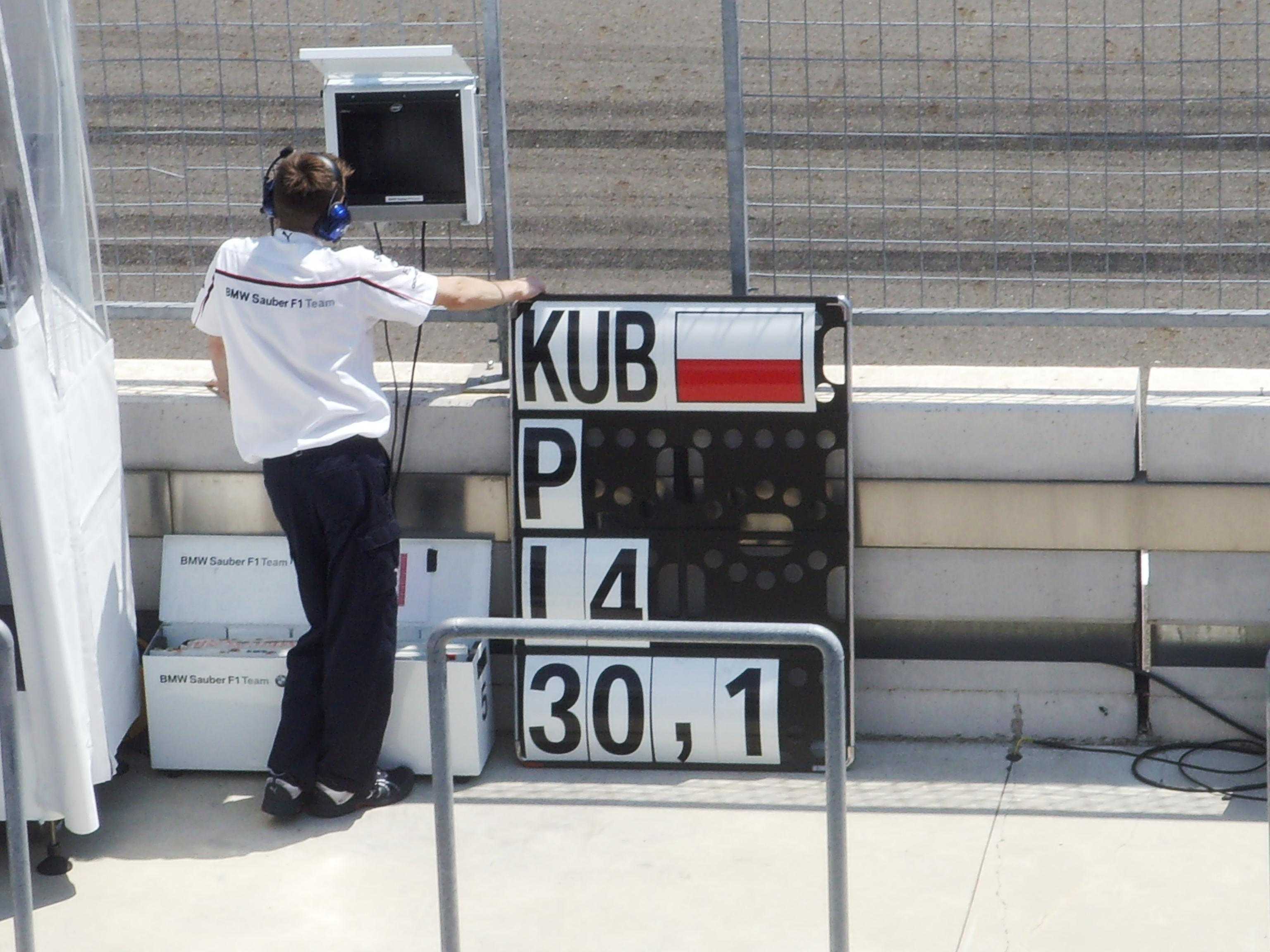 Position of Robert Kubica during practice session on Friday of 2009 Turkish Grand Prix weekend.